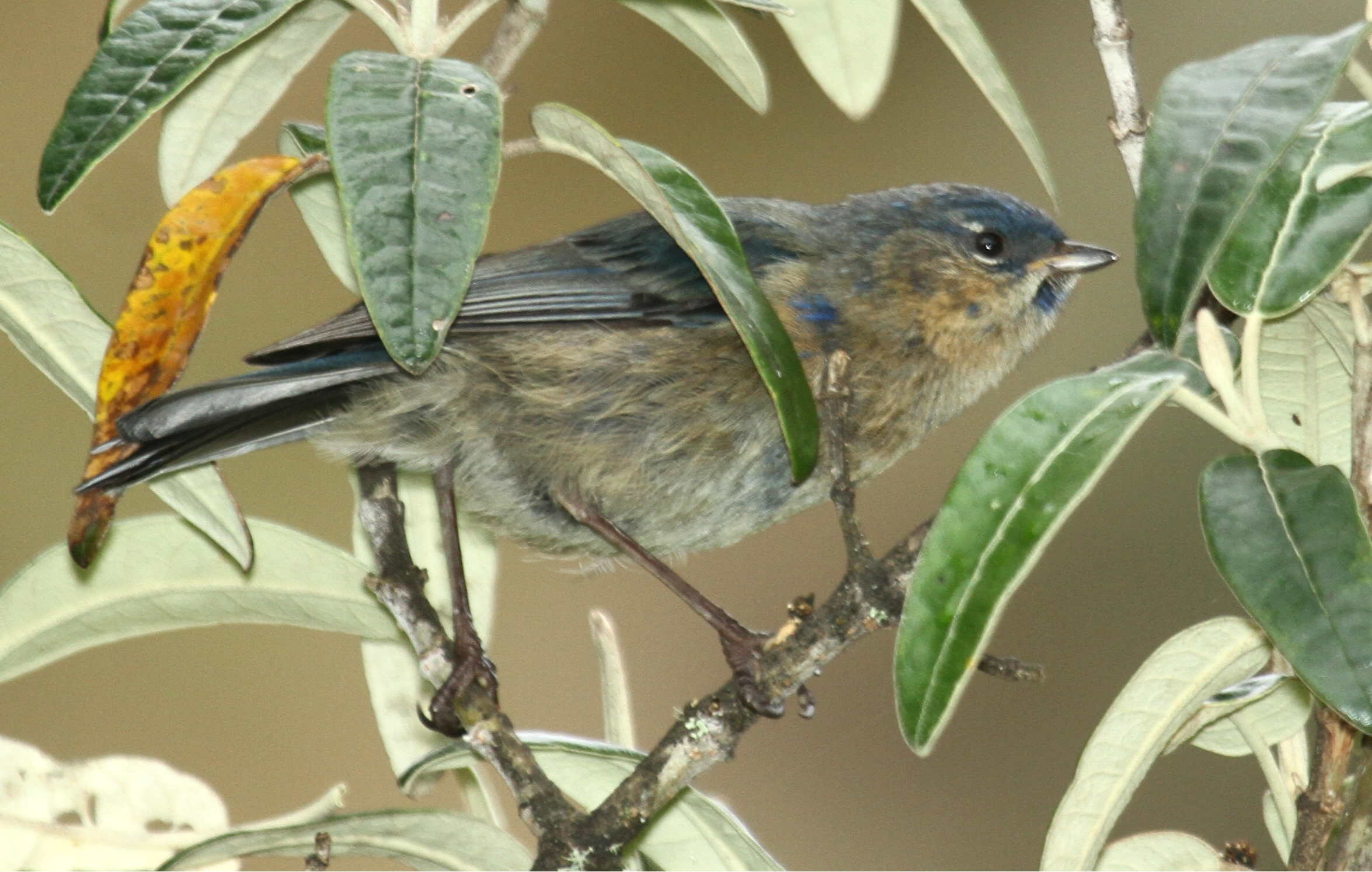 El Cajas Nat'l Park - Ecuador